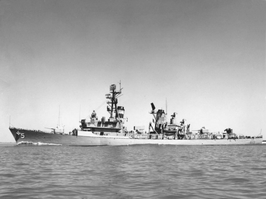 The U.S. Navy guided missile destroyer USS Biddle (DDG-5) underway on 21 April 1962, while running trials. This ship was renamed Claude V. Ricketts in July 1964.